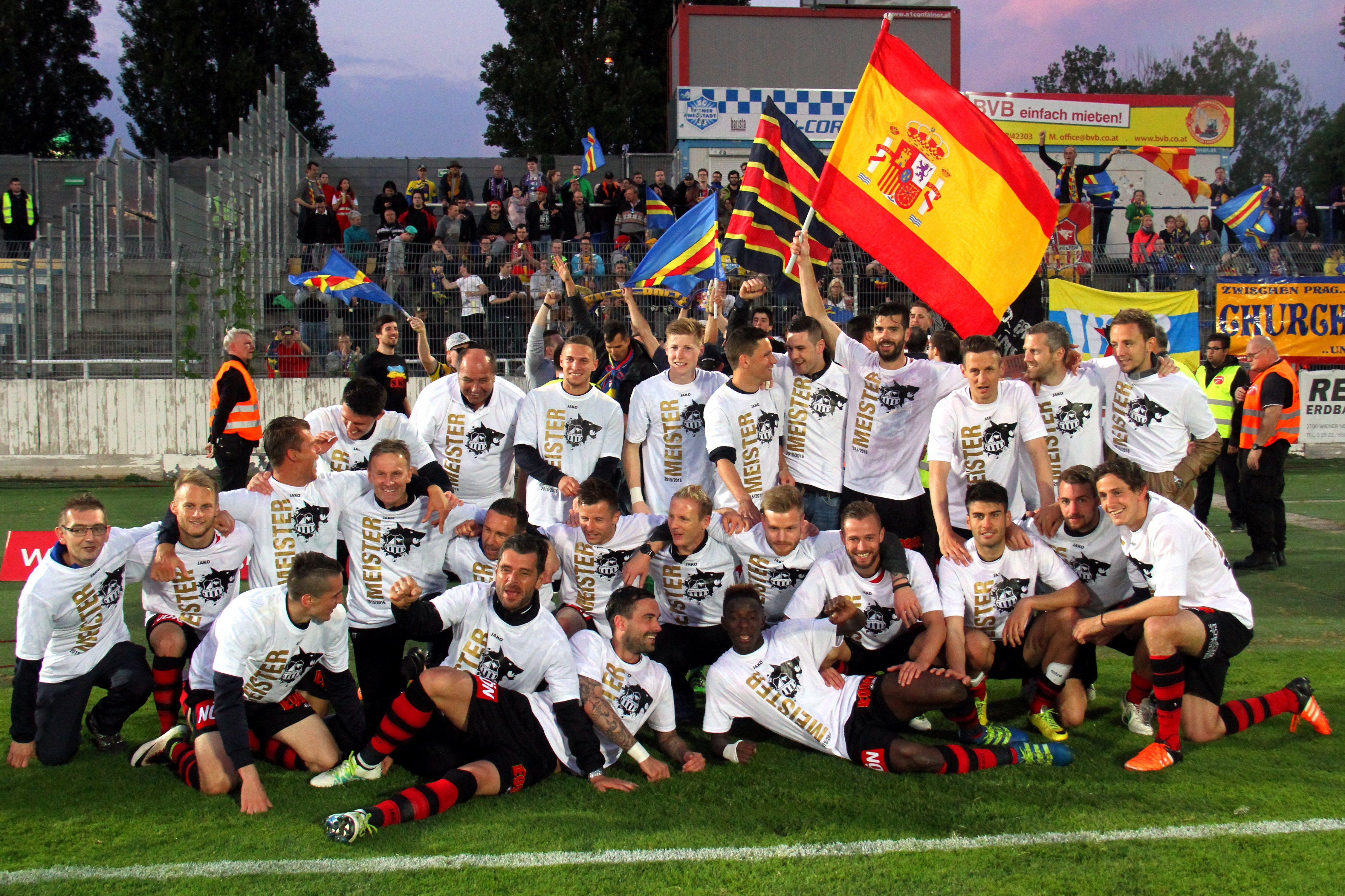 Match of the Erste Liga – SC Wiener Neustadt (blue/white shirts) vs. SKN St. Pölten (red shirts) 0–3 (0-0) on 2016-05-20 in the Stadion in Wiener Neustadt – The photo shows the team of SKN St. Pölten after winning the championship.